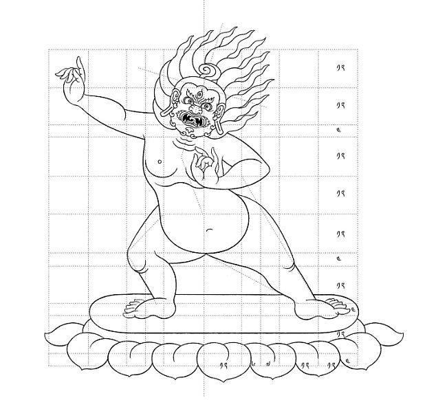 Iconometry of Vajrapani